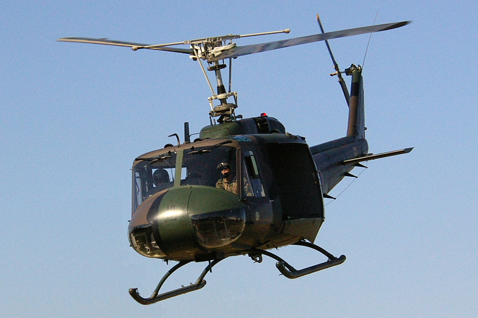 JGSDF UH-1H,in Camp Matsudo,Japan. UH-1H 2007年11月18日、松戸駐屯地で撮影。